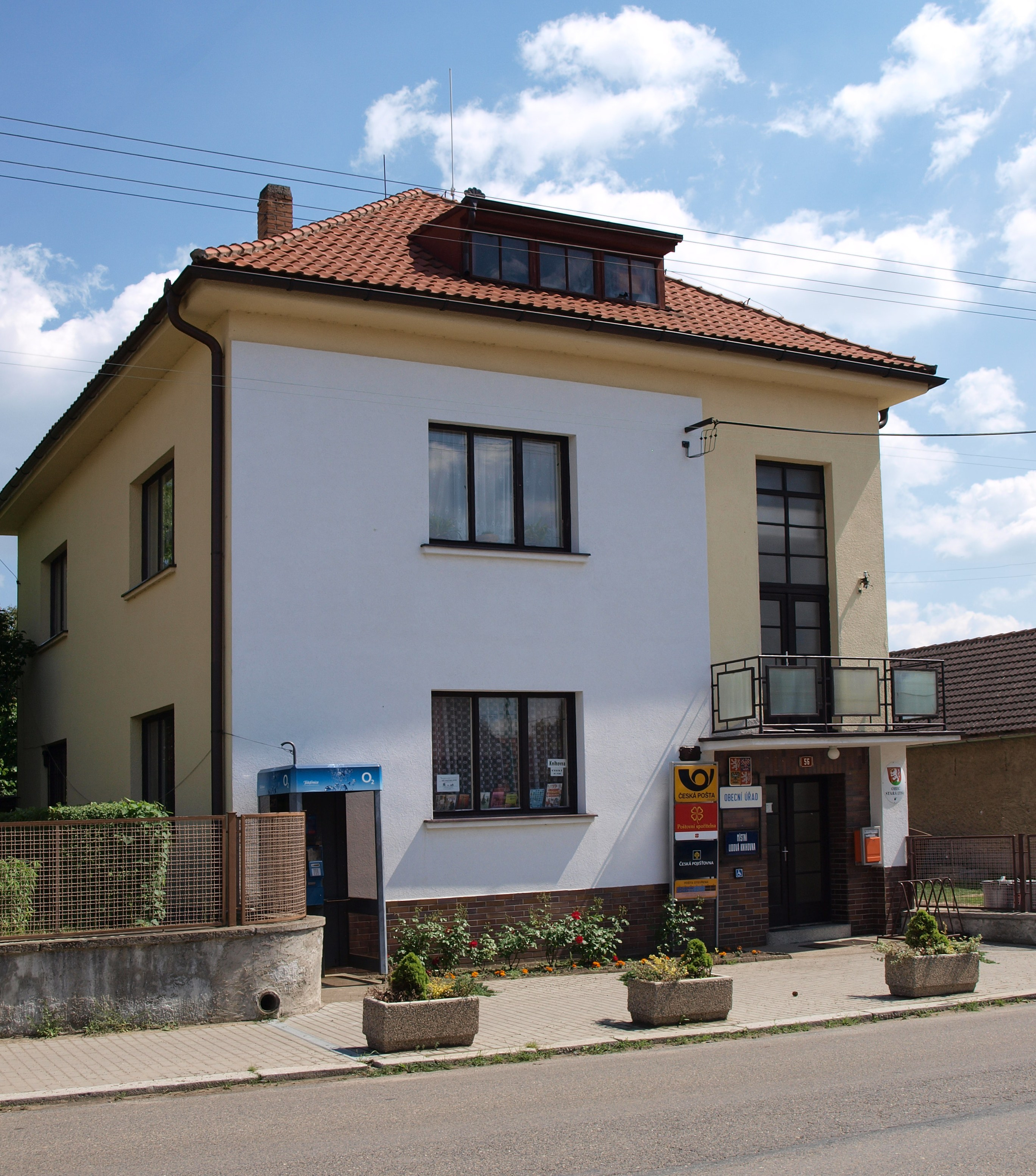 Municipal authority building in Stará Lysá, Central Bohemian Region